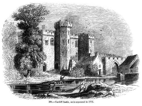 Cardiff Castle, Cardiff, Wales